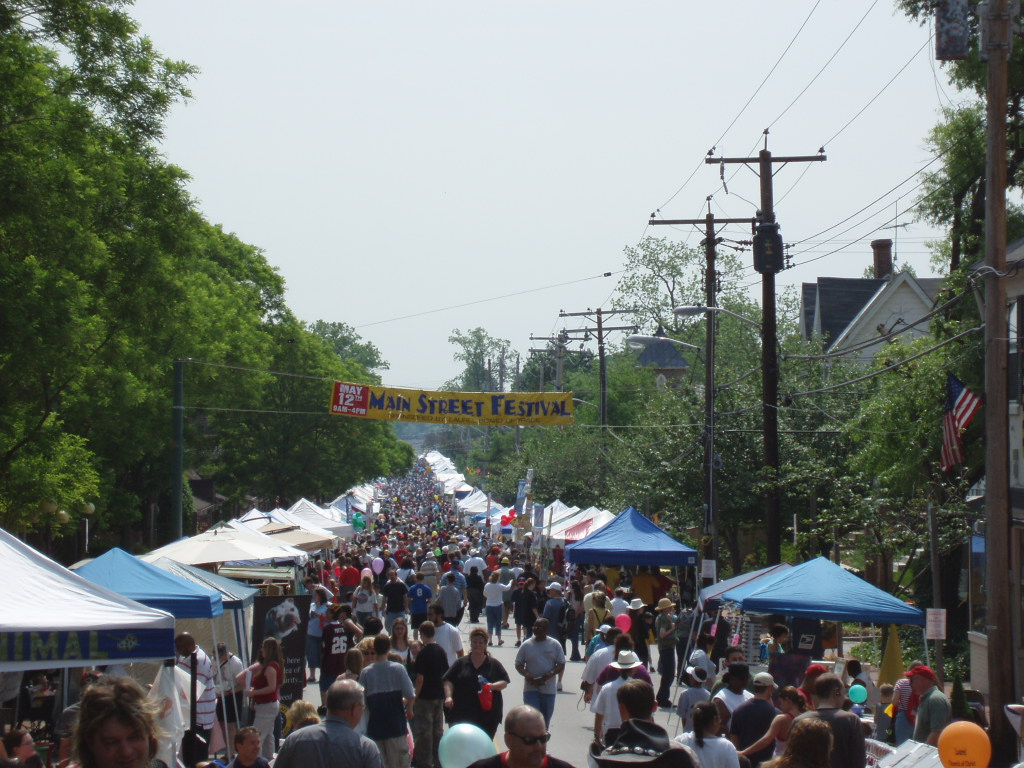 Laurel Main Street Festival, in Laurel, Maryland, May 12, 2007